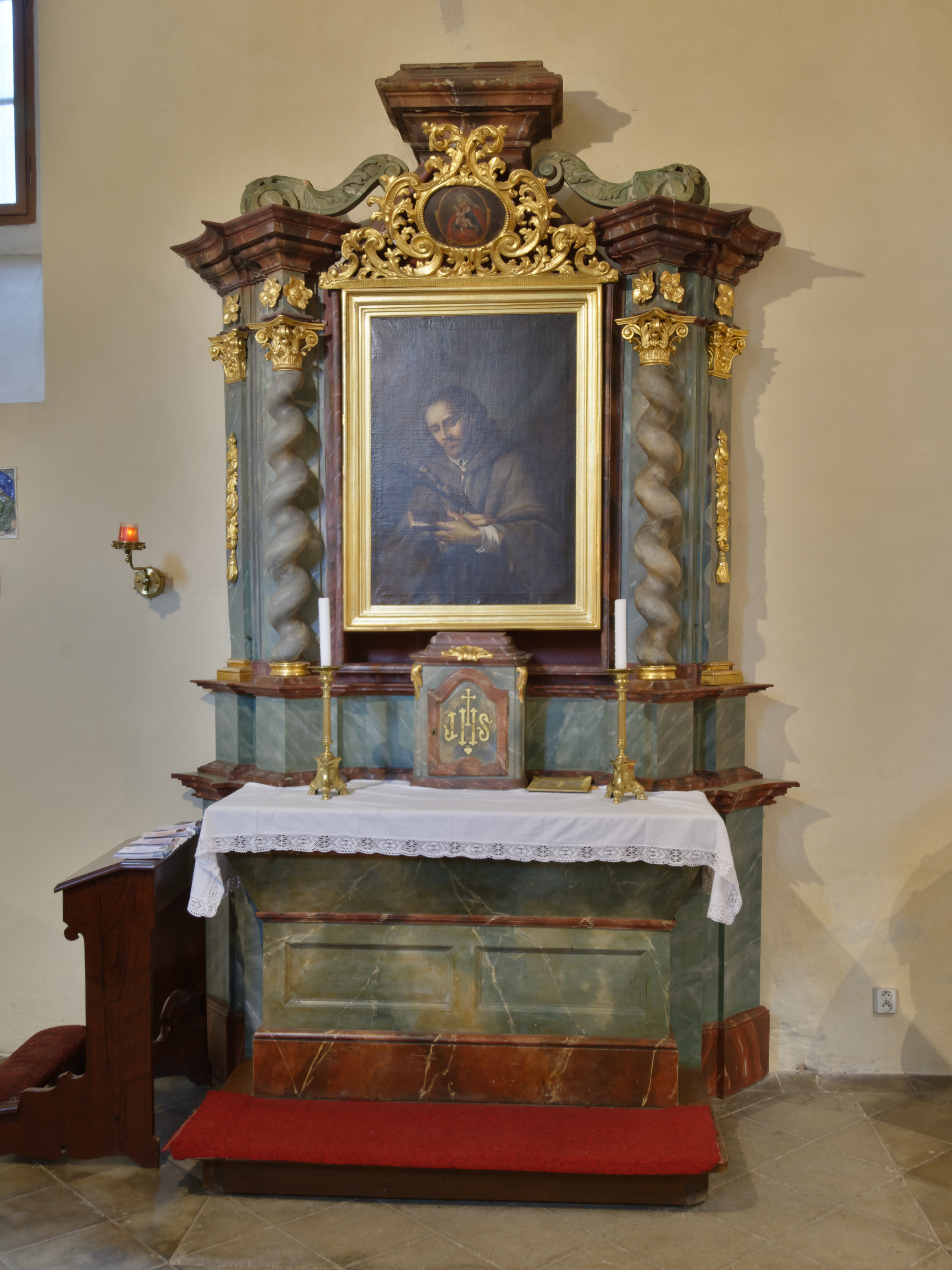 Church of Saint Clemens in Holešovice, Prague.